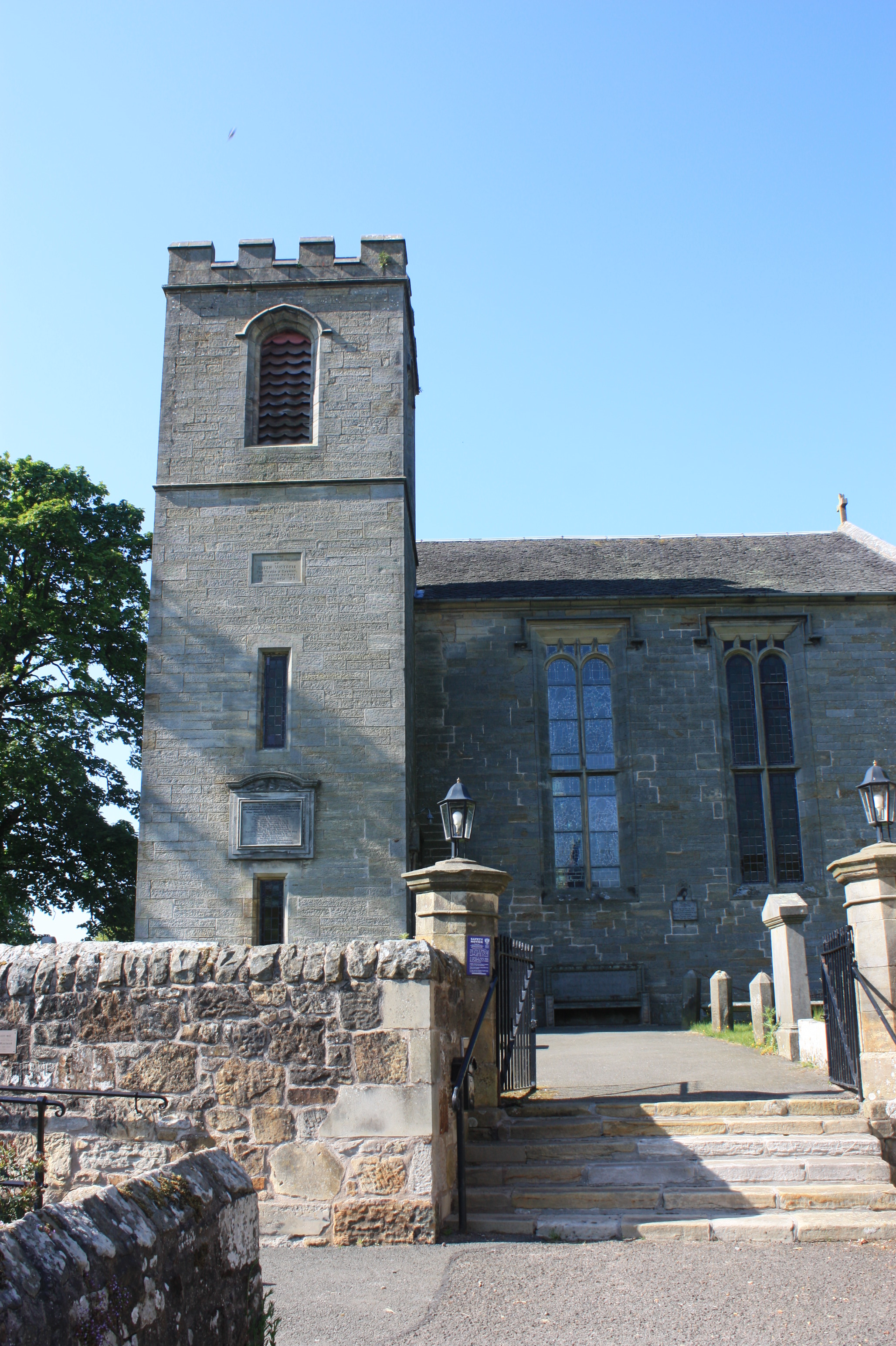 St Mary's parish church, Kirkton of Cleish, Perth and Kinross, Scotland